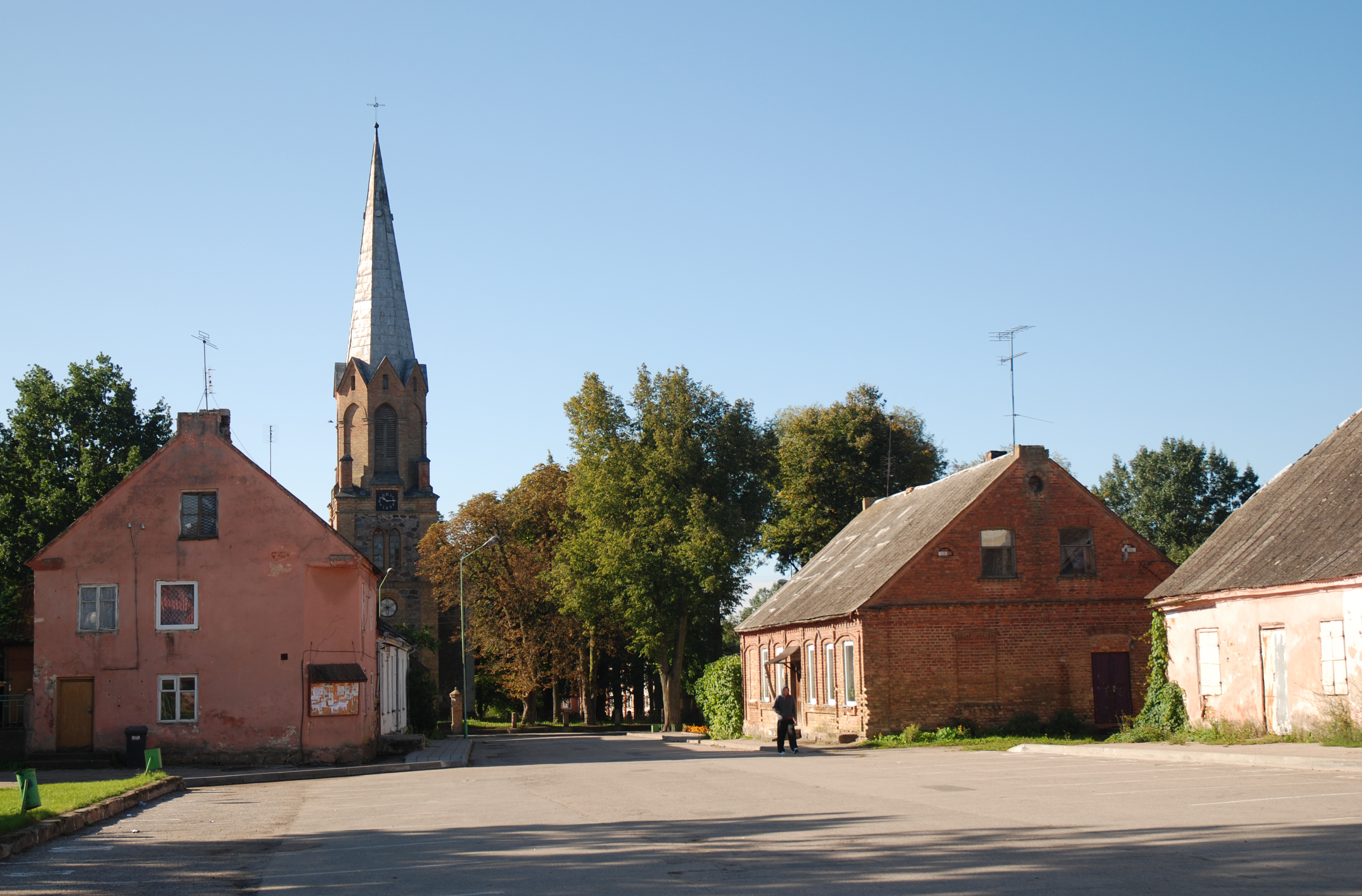 Žeimelis, central square, the local Evangelical Lutheran church visible in the background